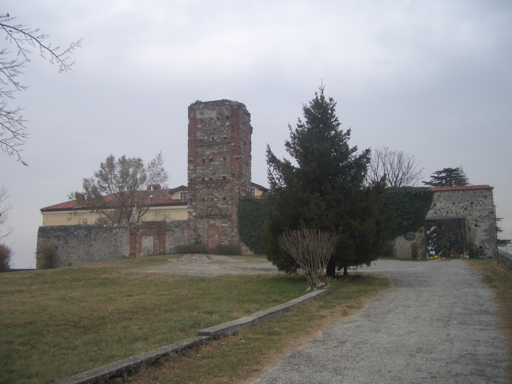 “San Giuseppe Castle, ruins of the old monastery “, Chiaverano, Turin, Italy